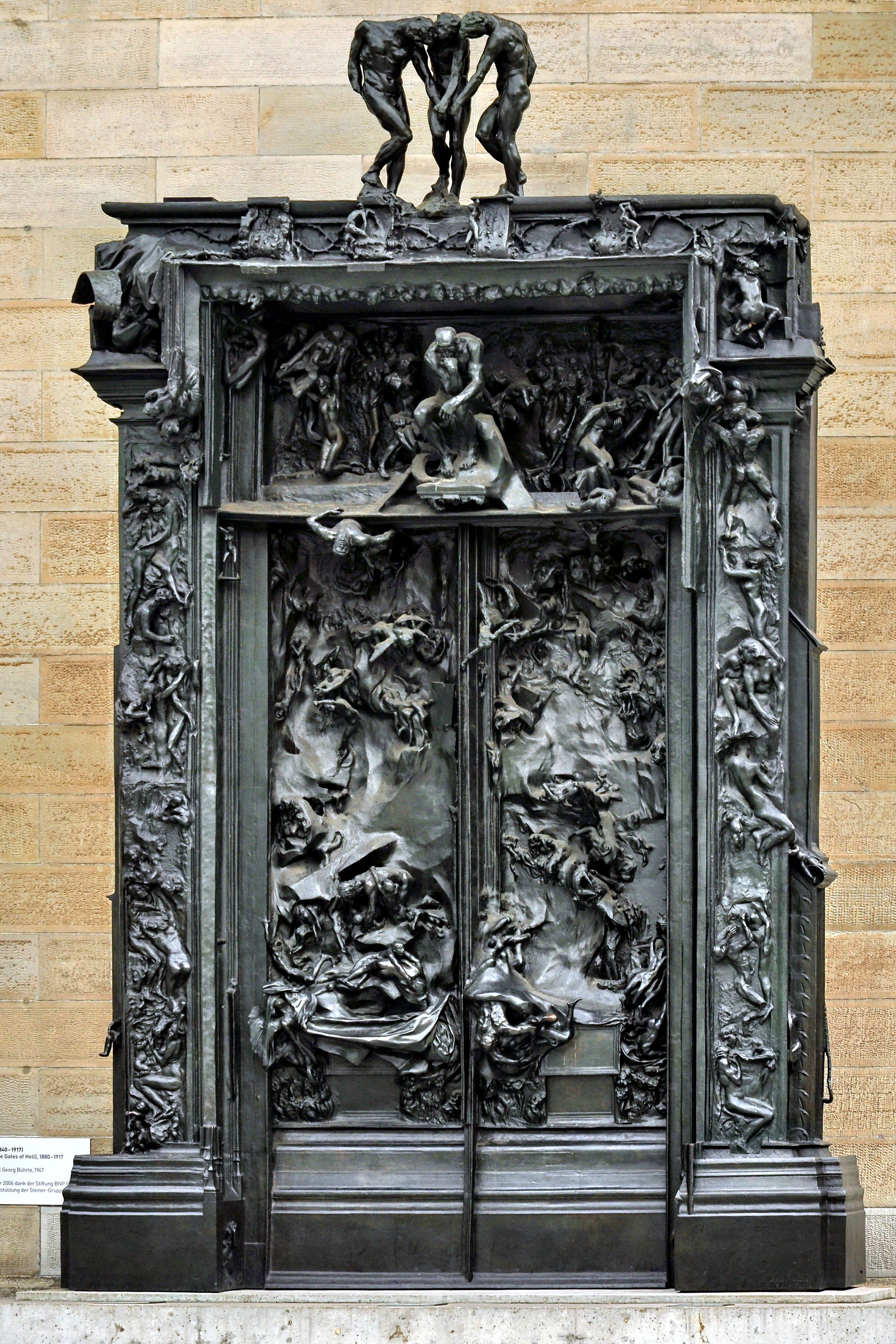 La Porte de l’Enfer (The Gates of Hell) by Auguste Rodin situated at the Kunsthaus in Zürich (Switzerland)